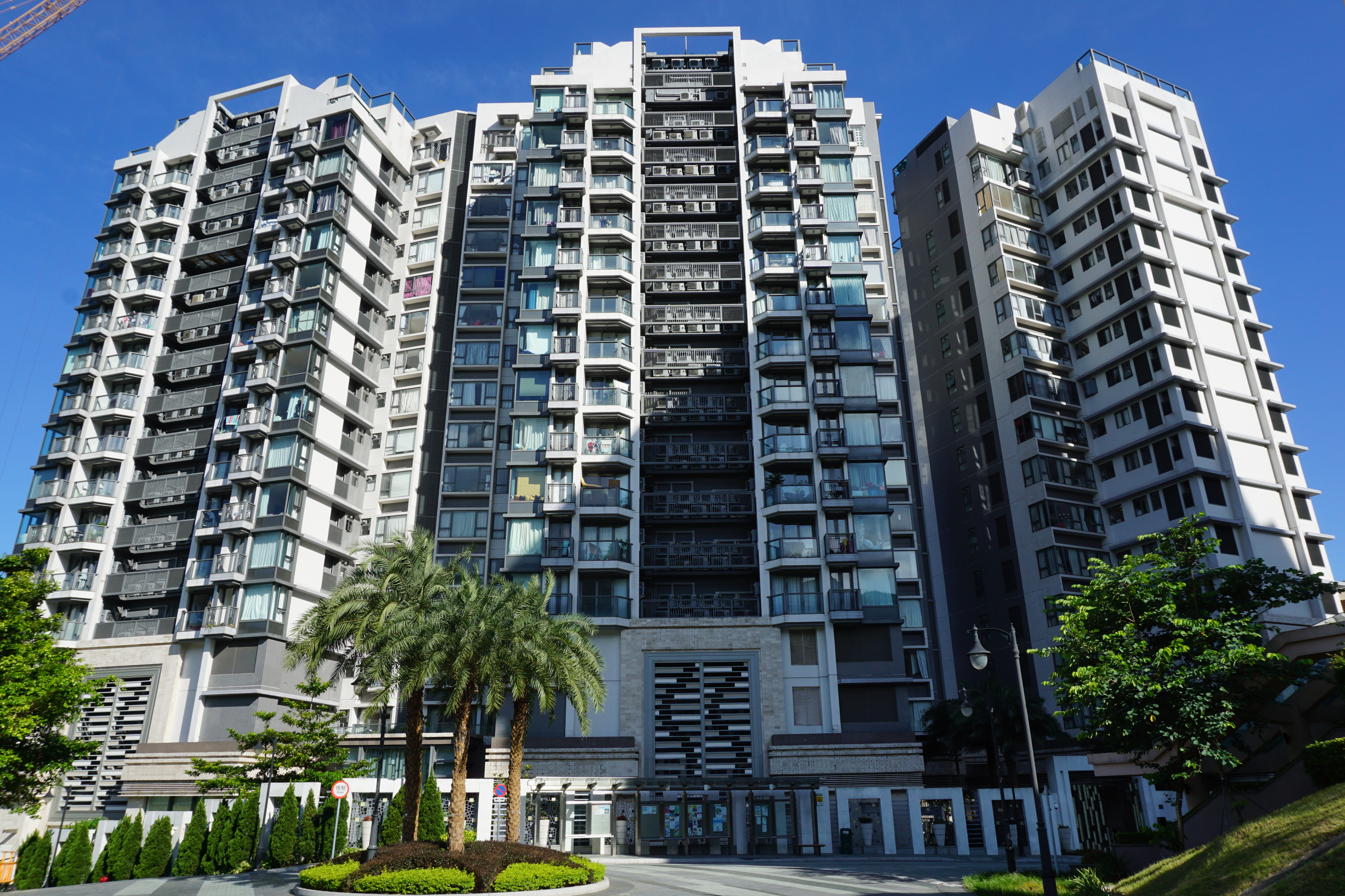 Amalfi in Discovery Bay, Hong Kong.